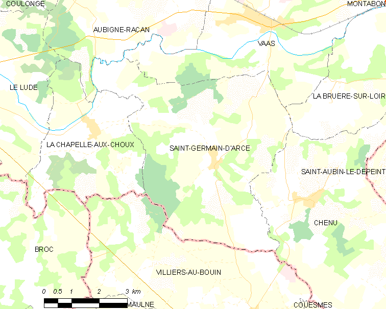 Map of French municipality